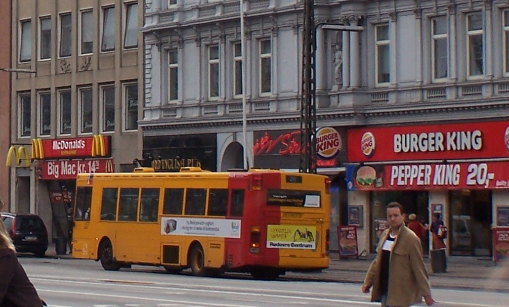 Vesterbrogade, Copenhagen.